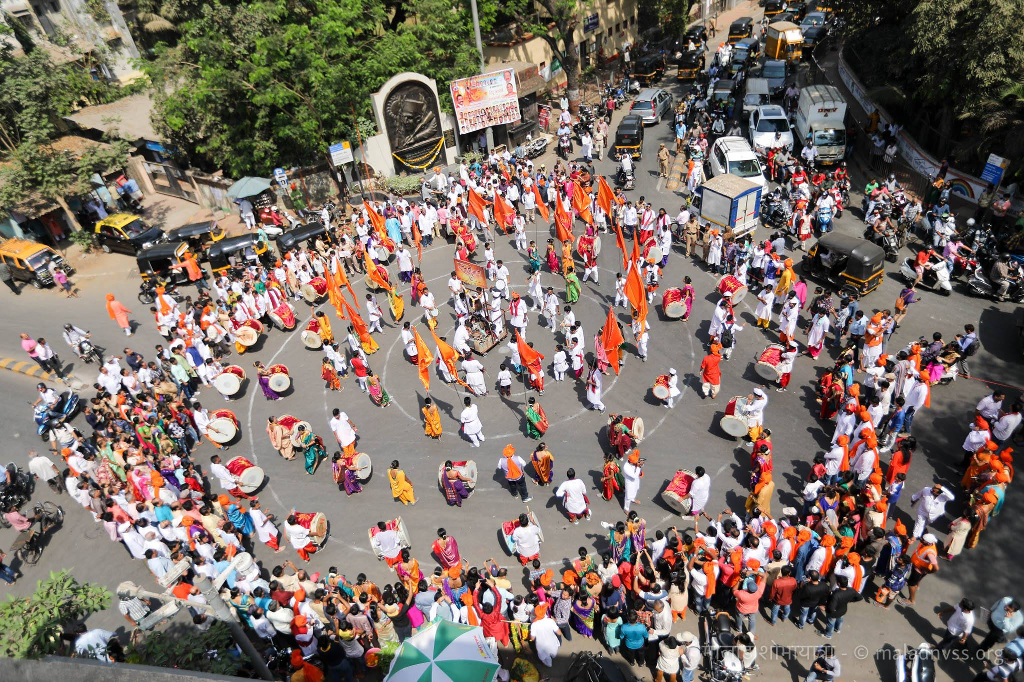 The annual procession of 'Vishwa Mangal Shobha Yatra' on the day of Gudhi Padwa